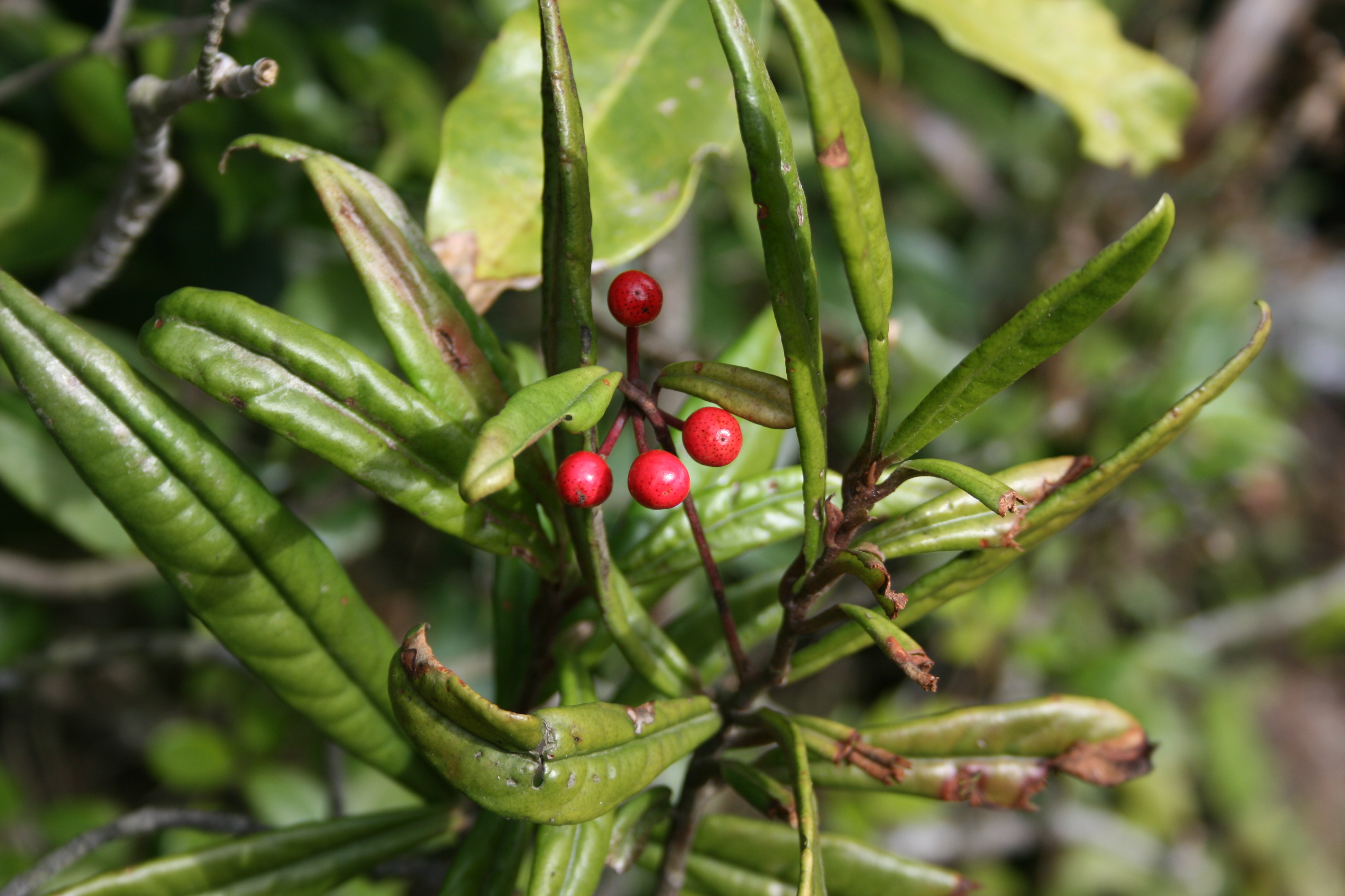 Ardisia lindleyana, at Dragon's Back, Shek O Country Park, Hong Kong